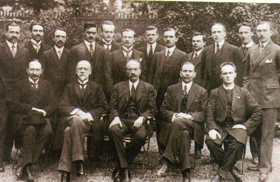 The Slovene section of the Yugoslaw delegation in Paris (1918)